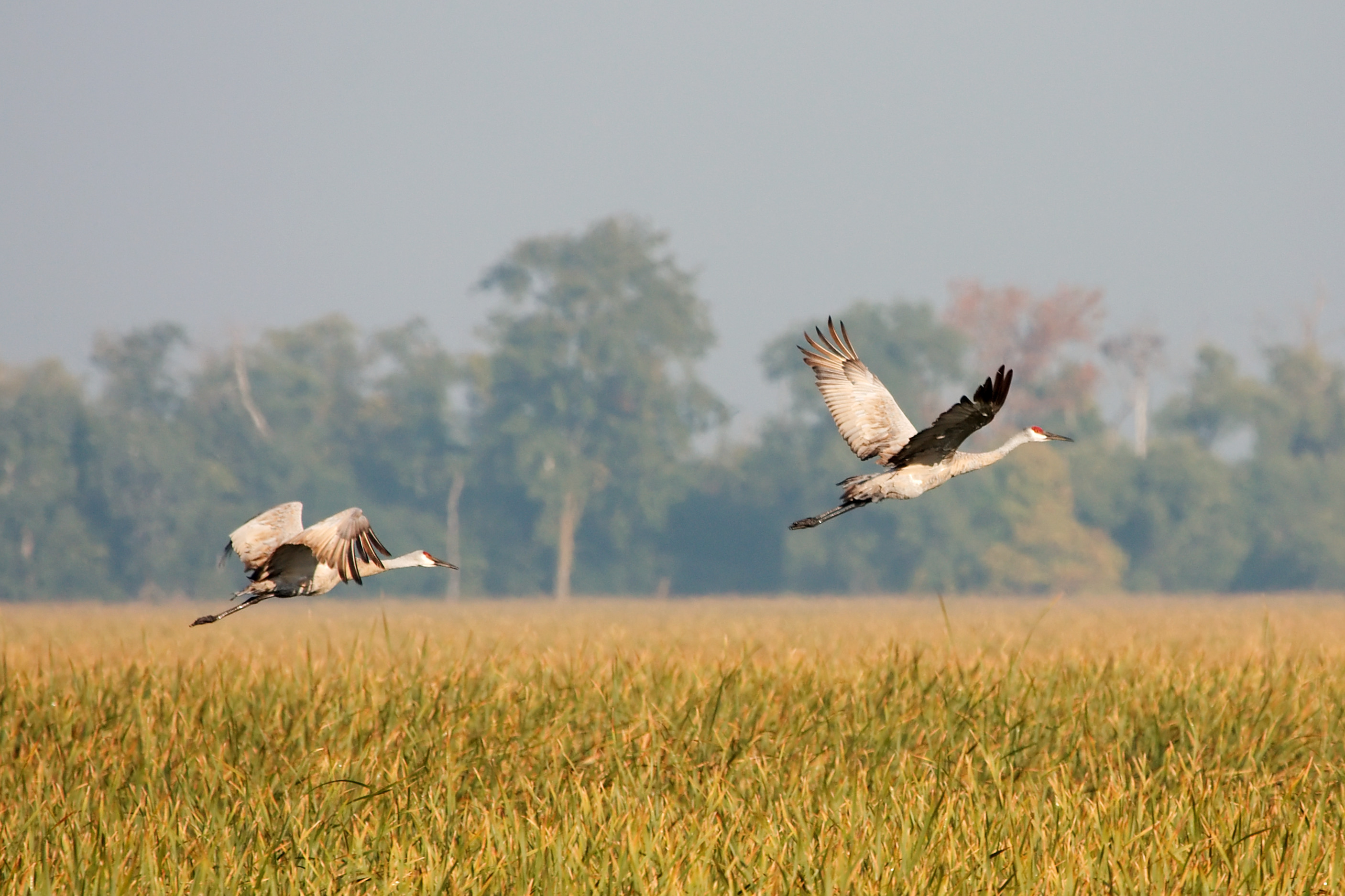 Two Sandhill Cranes (Grus canadensis), flying at sunrise over Horicon National Wildlife Refuge in Wisconsin